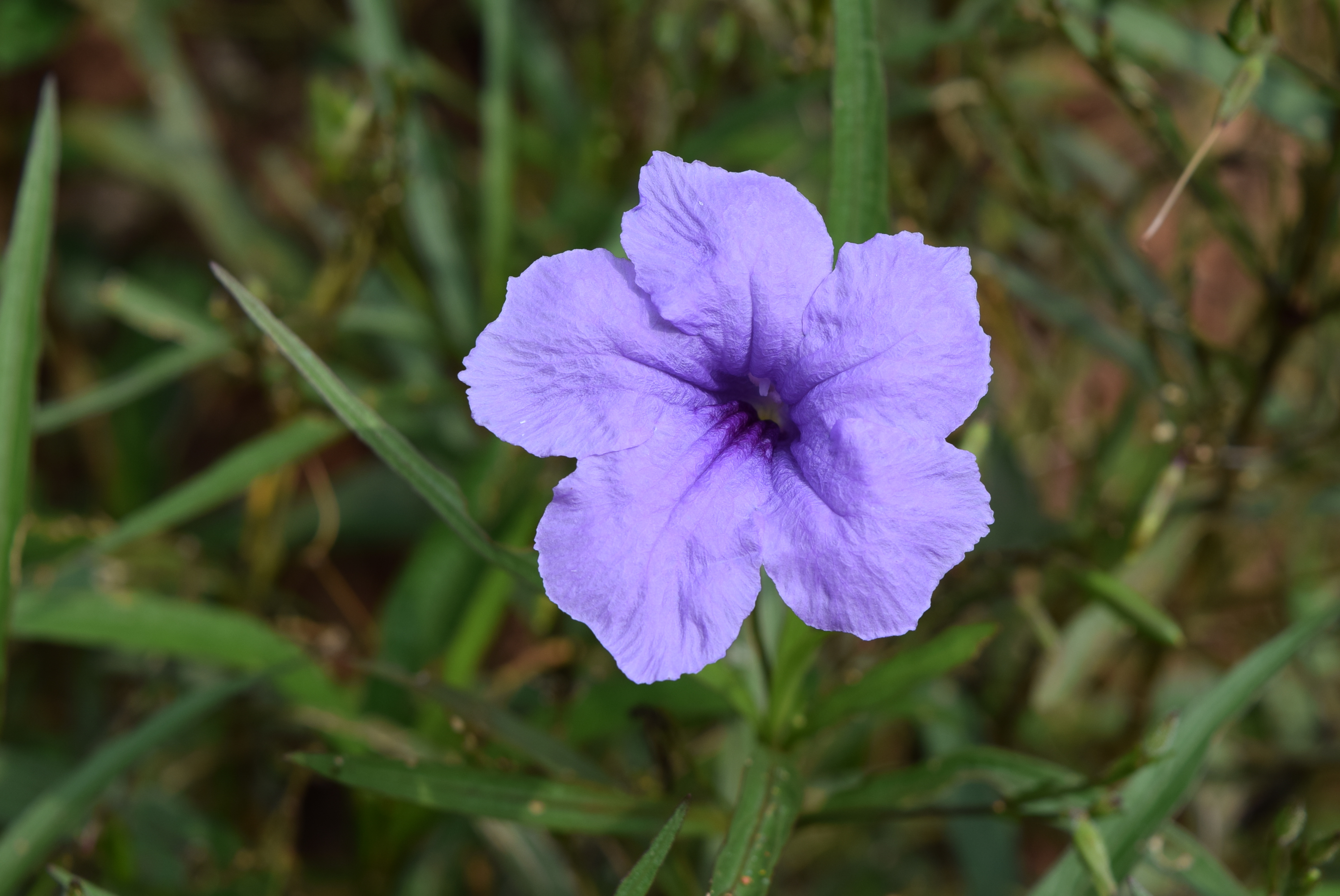 pale purple flowers with violet centre; erect perennial